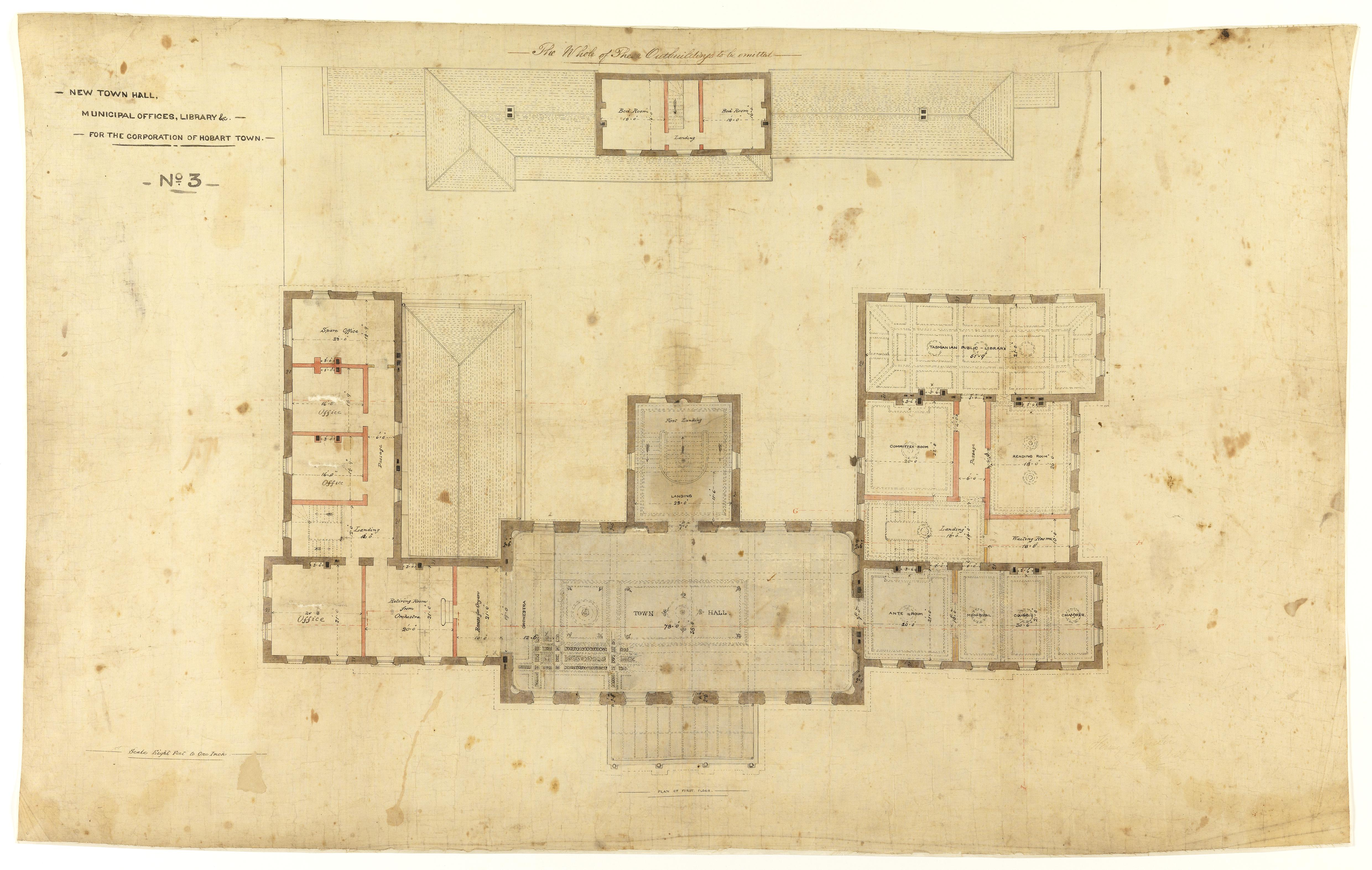 Tasmanian Archives and Heritage Office: NS78/1/2 Images from the TAHO collection that are part of The Commons have ‘no known copyright restrictions’, which means TAHO is unaware of any current copyright restrictions on these works. This can be because the term of copyright for these works may have expired or that the copyright was held and waived by TAHO. The material may be freely used provided TAHO is acknowledged; however TAHO does not endorse any inappropriate or derogatory use.